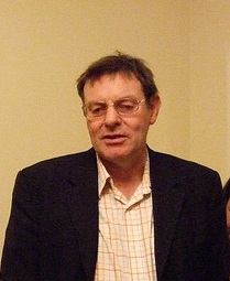 This is a picture of Professor John Grahl Extracted from File:Johngrahl.jpg